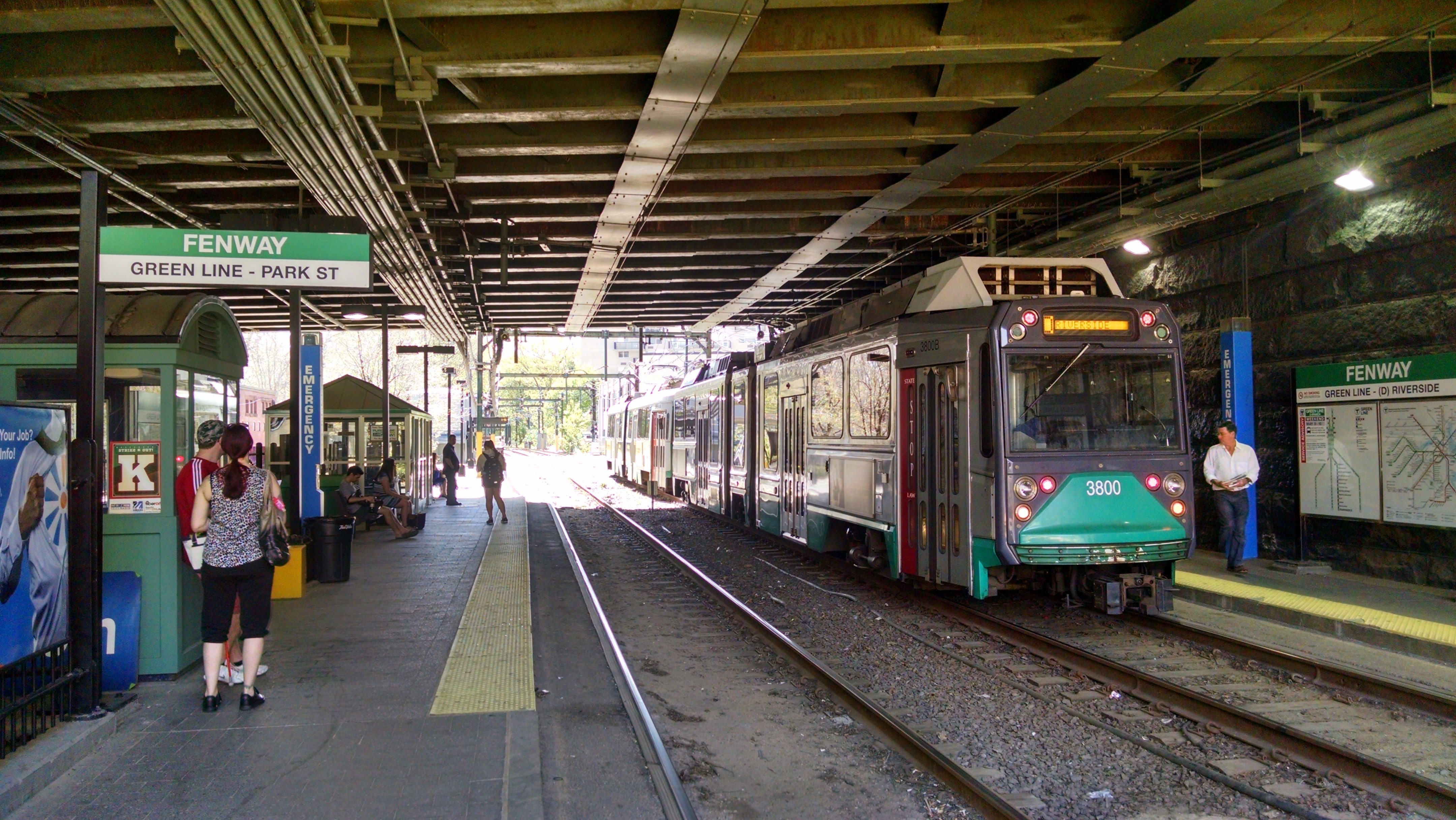 MBTA Type 8 car #3800 outbound at Fenway station in May 2015